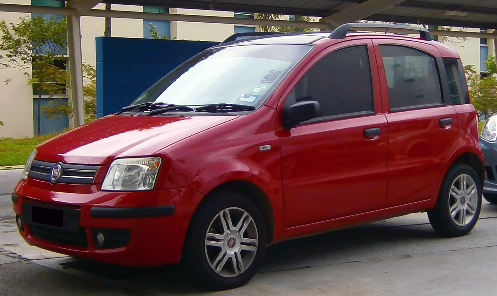 2011 Fiat Panda in Cyberjaya, Malaysia.